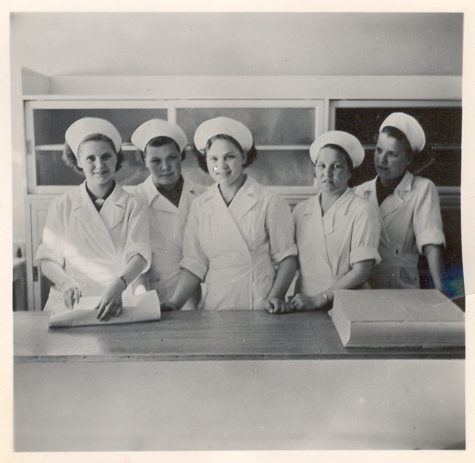 Trube's confectionery staff in 1950's